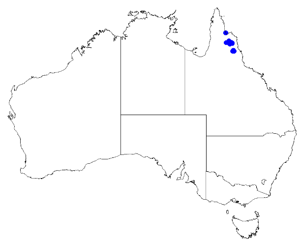 Boronia quinkanensis downloaded from Australasian Virtual Herbarium 10 April 2019 using This download included all the environmental overlay fields and ALA's data checking fields including "cultivated / escapee", "outside expert range for species", "latitude is negated", "coordinates are transposed", "taxon misidentified", "habitat incorrect for species", and "suspected outlier" (711 fields). Deleting occurrences for which any of the above were true, 46 specimens with coordinates were deleted.